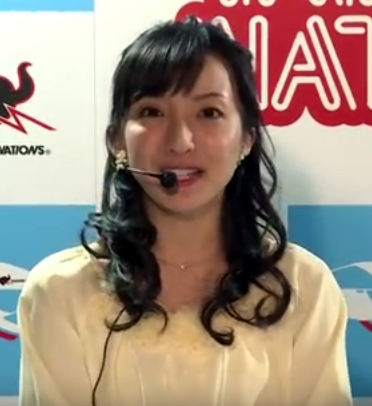 Chiaki Matsuzawa, Announcer of the Horipro Inc., attended the Tamashii Nation 2016 at Akihabara UDX in Chiyoda Ward, Tōkyō Metropolis on October 28, 2016.